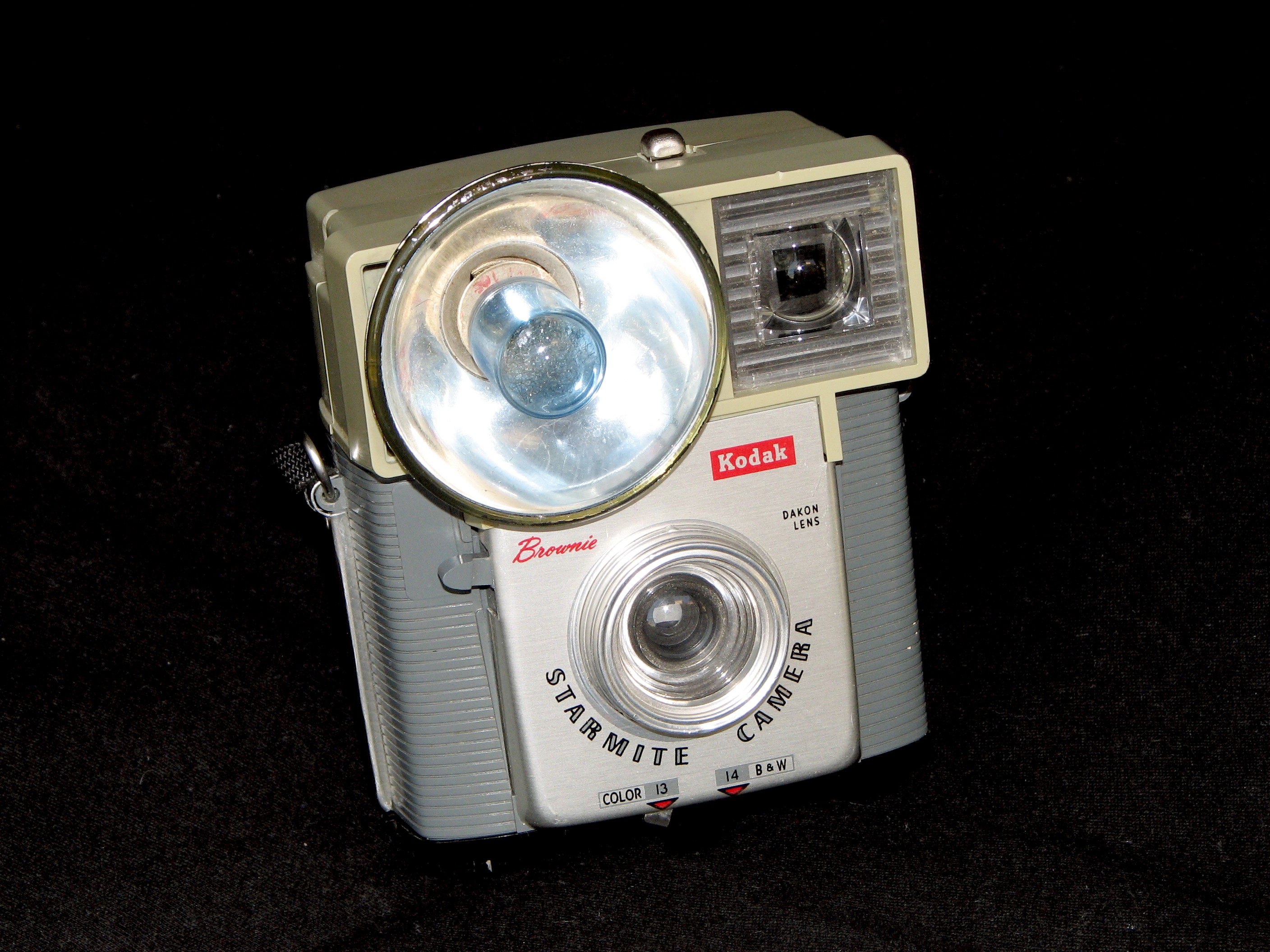 Kodak Brownie Starmite camera, in production between 1960-1963.